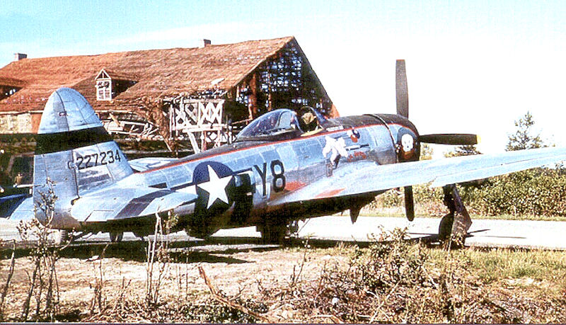 507th Fighter Squadron - Republic P-47D-27-RE Thunderbolt 42-27234 parked at Fritzlar Airfield (Y-86), Germany, April 1945